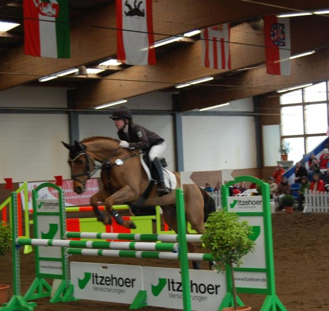 Bundesvierkampf 2012, Norderstedt-Glashütte: A rider with a horse from another team. "Vierkampf" is a team competition, all competitors have to start in the disciplines swimming (50 meter), dressage riding, running (3 km) and show jumping. In the "Bundesvierkampf" compete teams from the States of Germany. In the show jumping competition two riders of each team has to ride horses from another team.